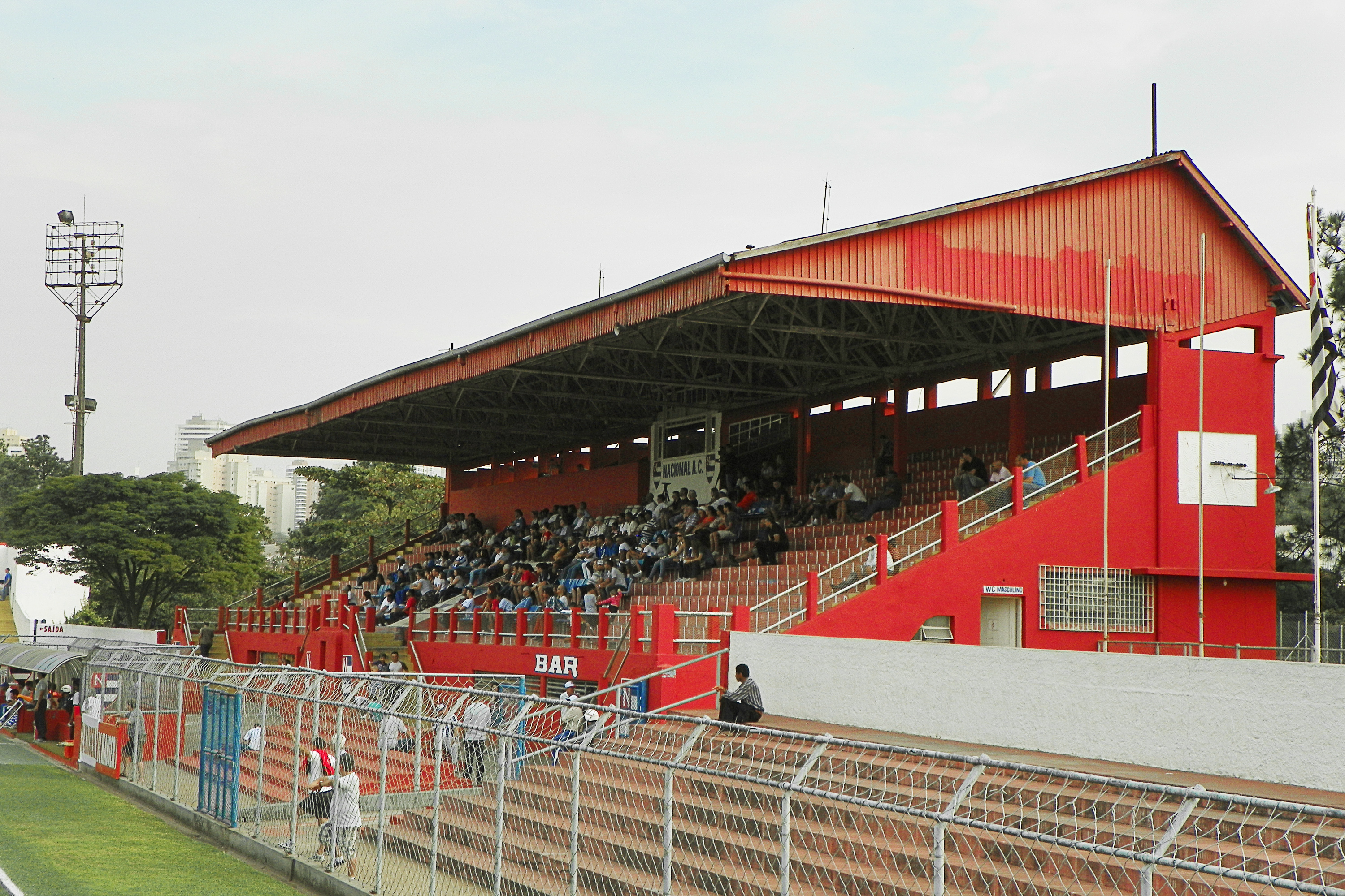 Nicolau Alayon Stadium tribunes, at Rua Comendador Sousa, in São Paulo, Brazil.